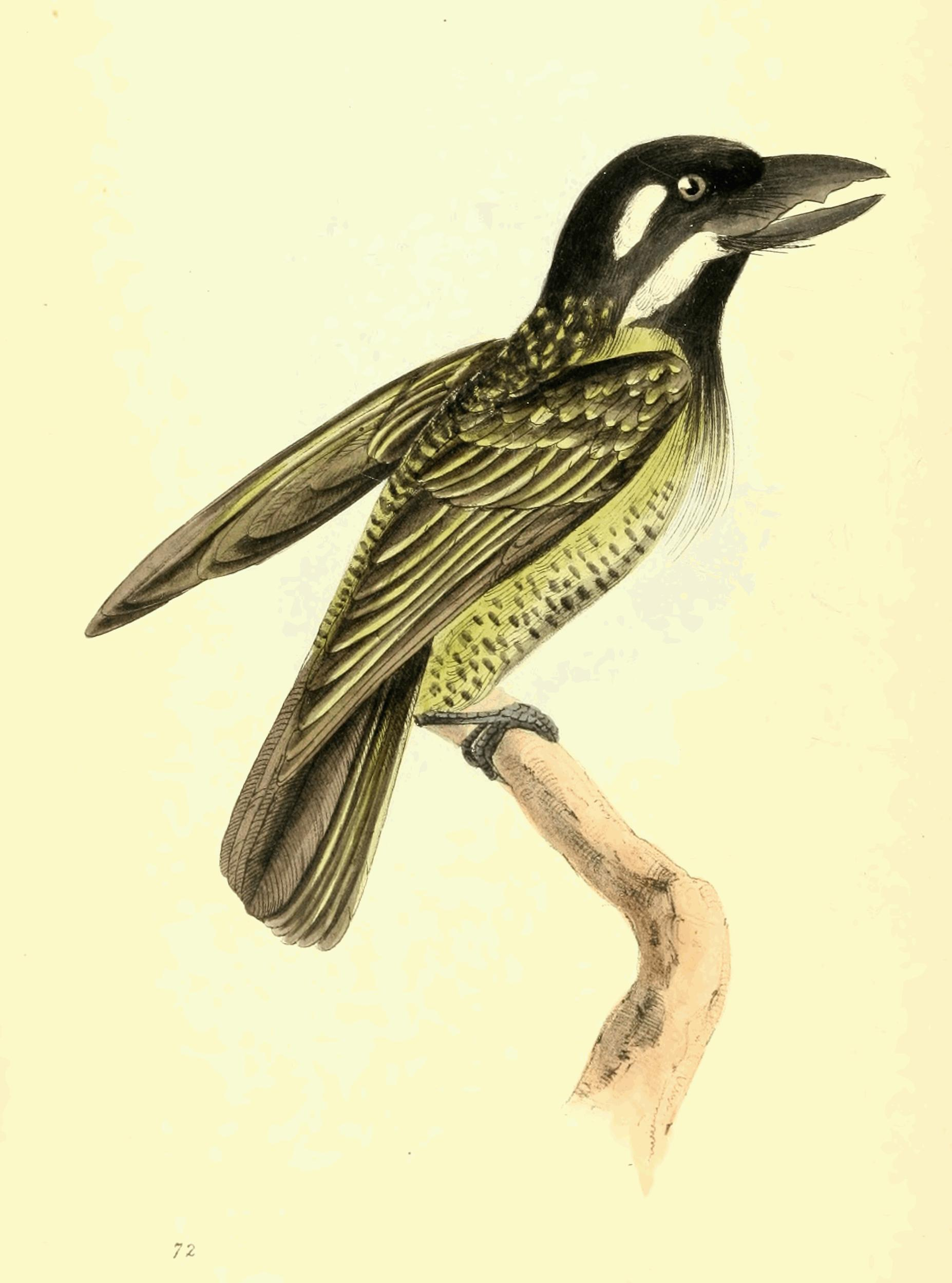 Plate 72. Pogonias hirsutus. Hairy-breasted Toothbill. Modern accepted name (2012) is Tricholaema hirsuta[1] ].